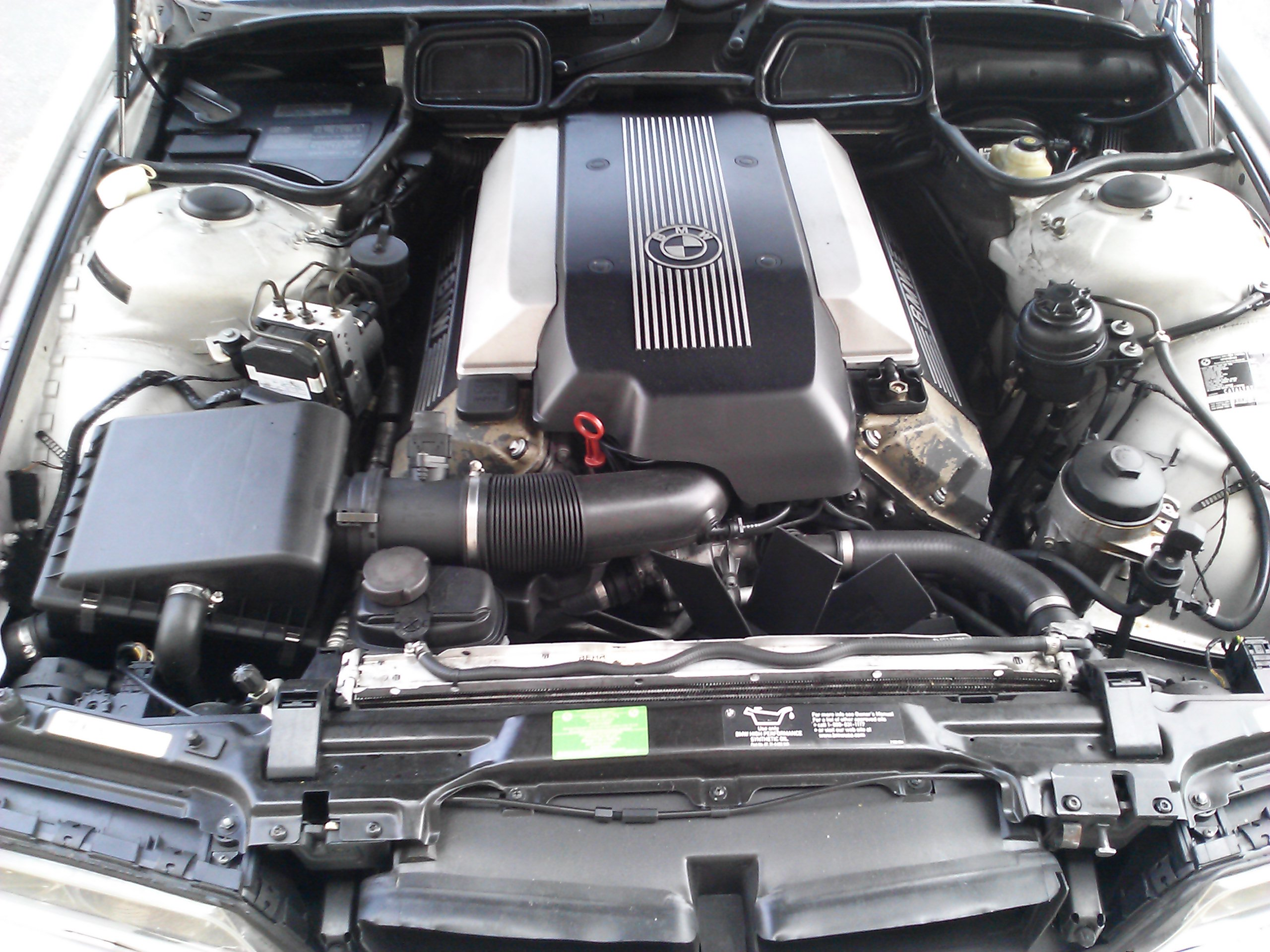 Underneath the hood of a 2001 BMW 740i